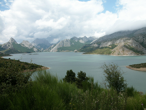 Riano. Spain. Summer 2007.